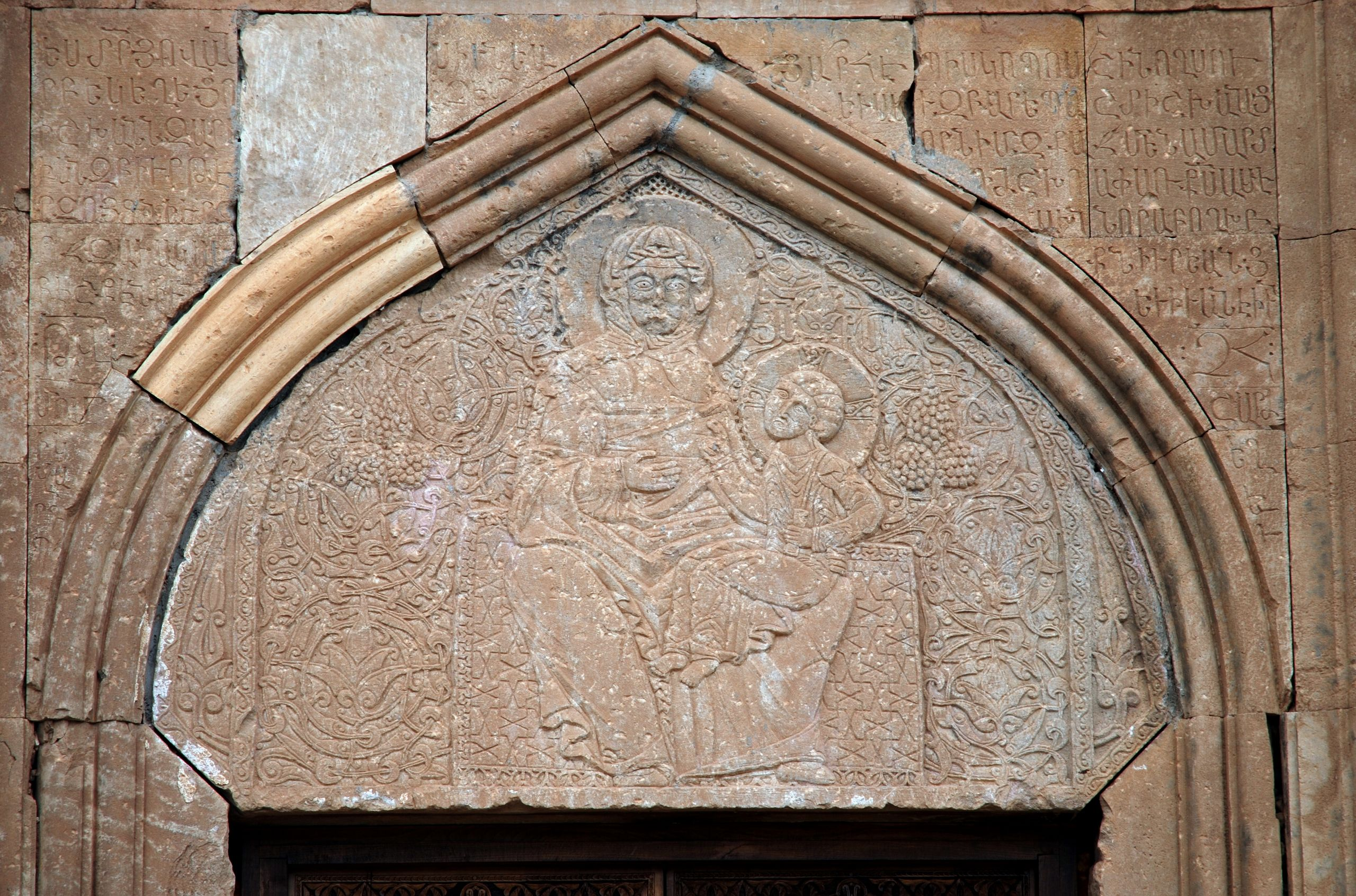 Areni church, tympanum west